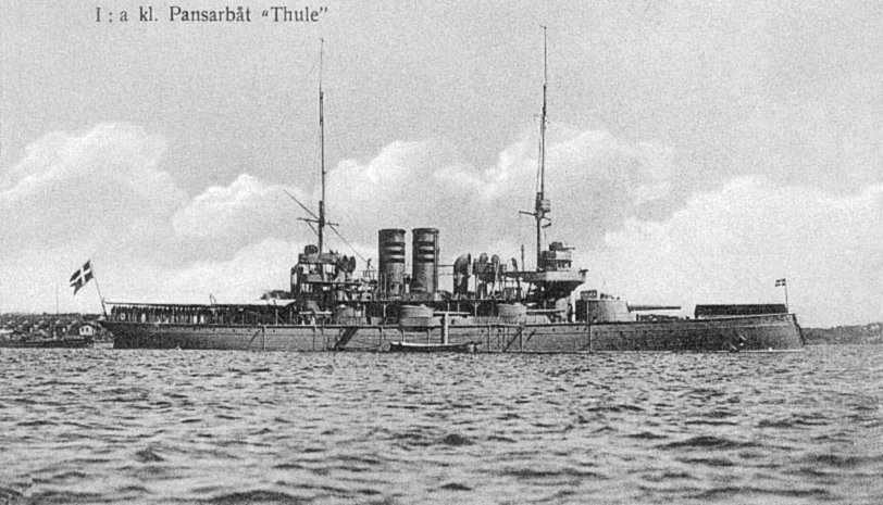 An old postcard of the Swedish battleship HMS Thule.